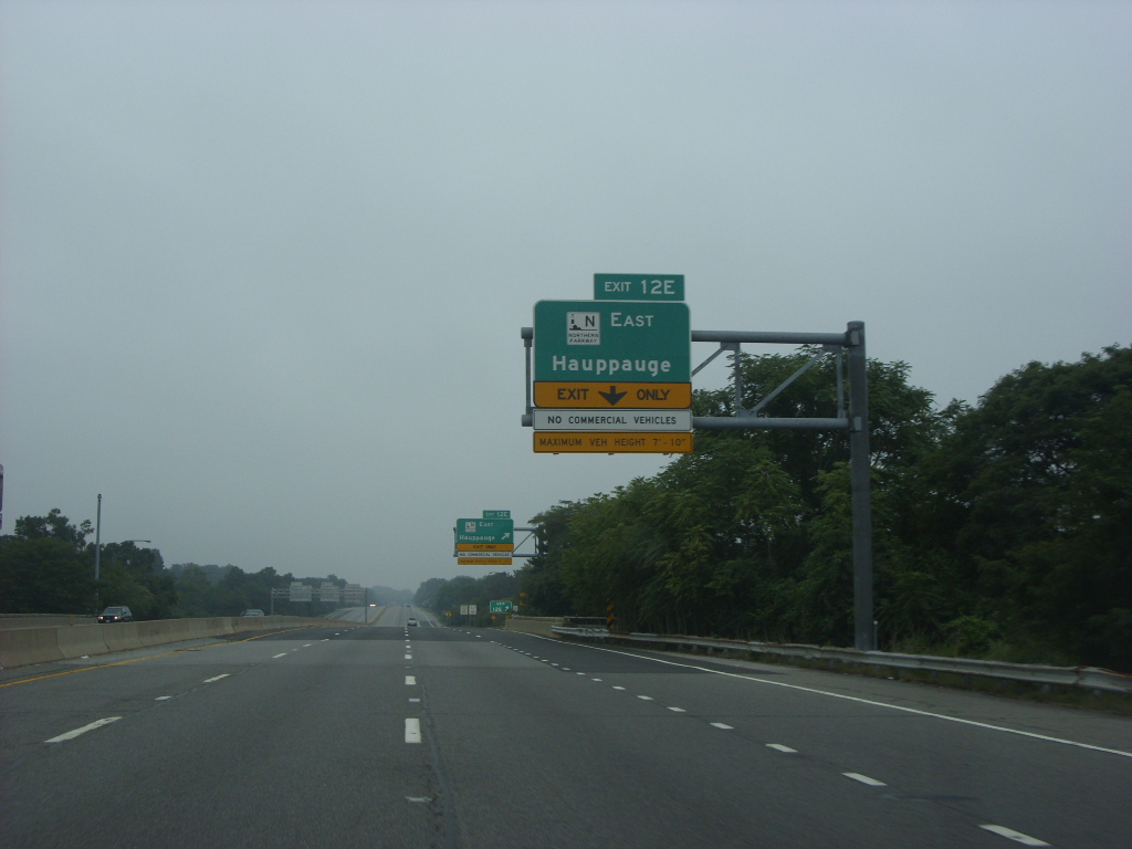 New York State Route 135 at the junction with the Northern State Parkway (exit 12) in Plainview.